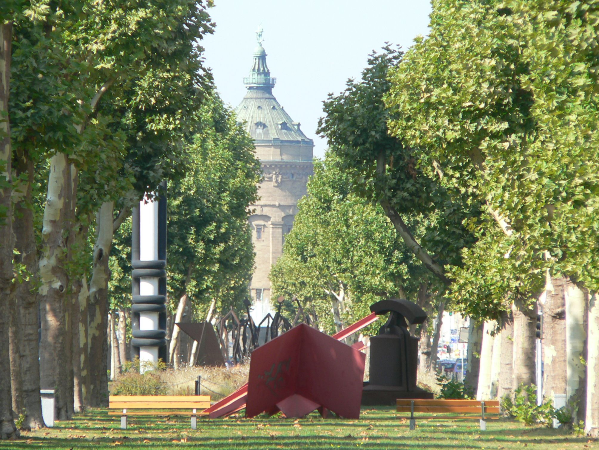 Some sculptures of the "Skulpturenmeile" taken with a long lens in Mannheim, Germany